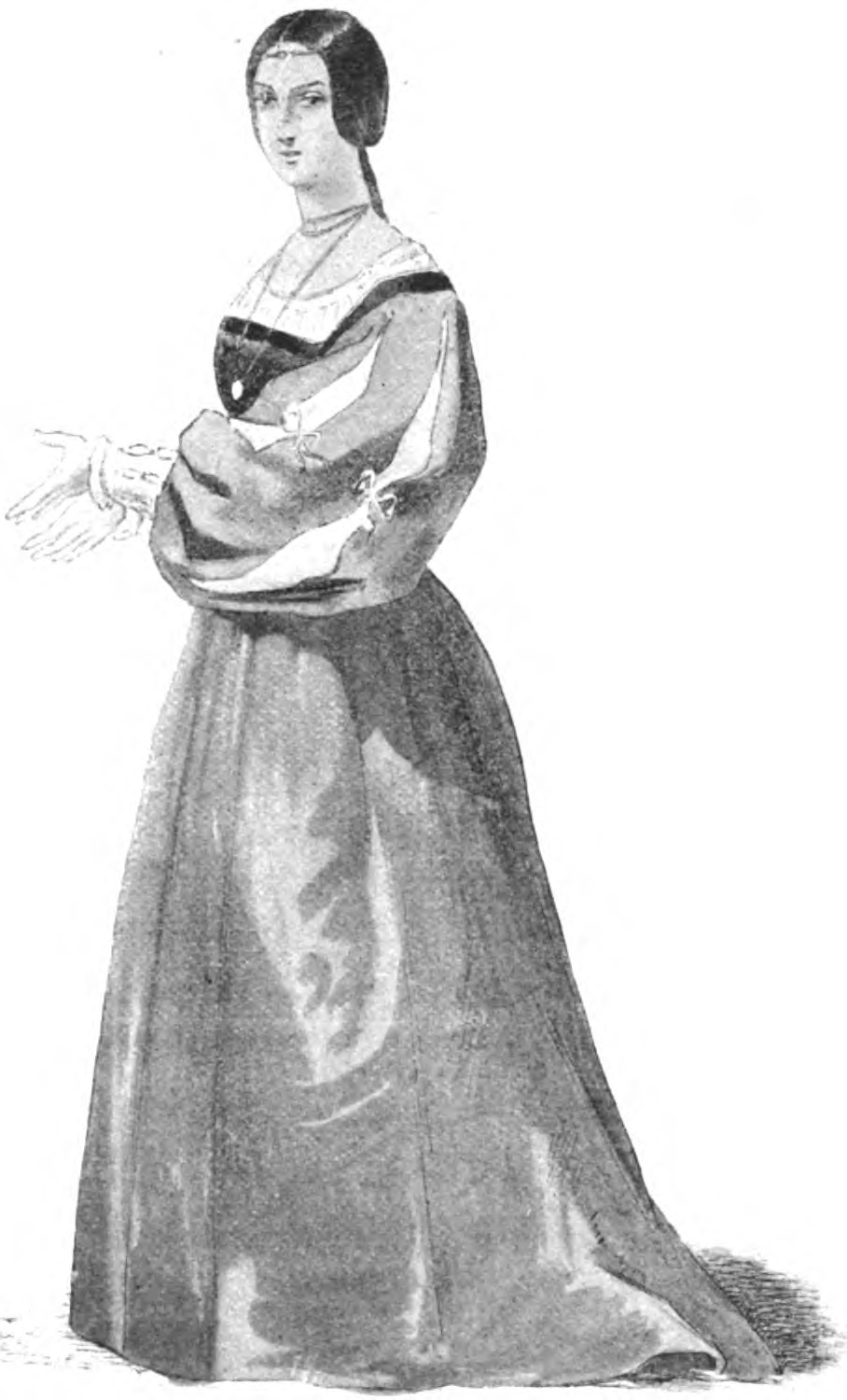 Costume design by Paul Lormier for Julie Dorus-Gras as Teresa in the original production of the opera Benvenuto Cellini by Berlioz.